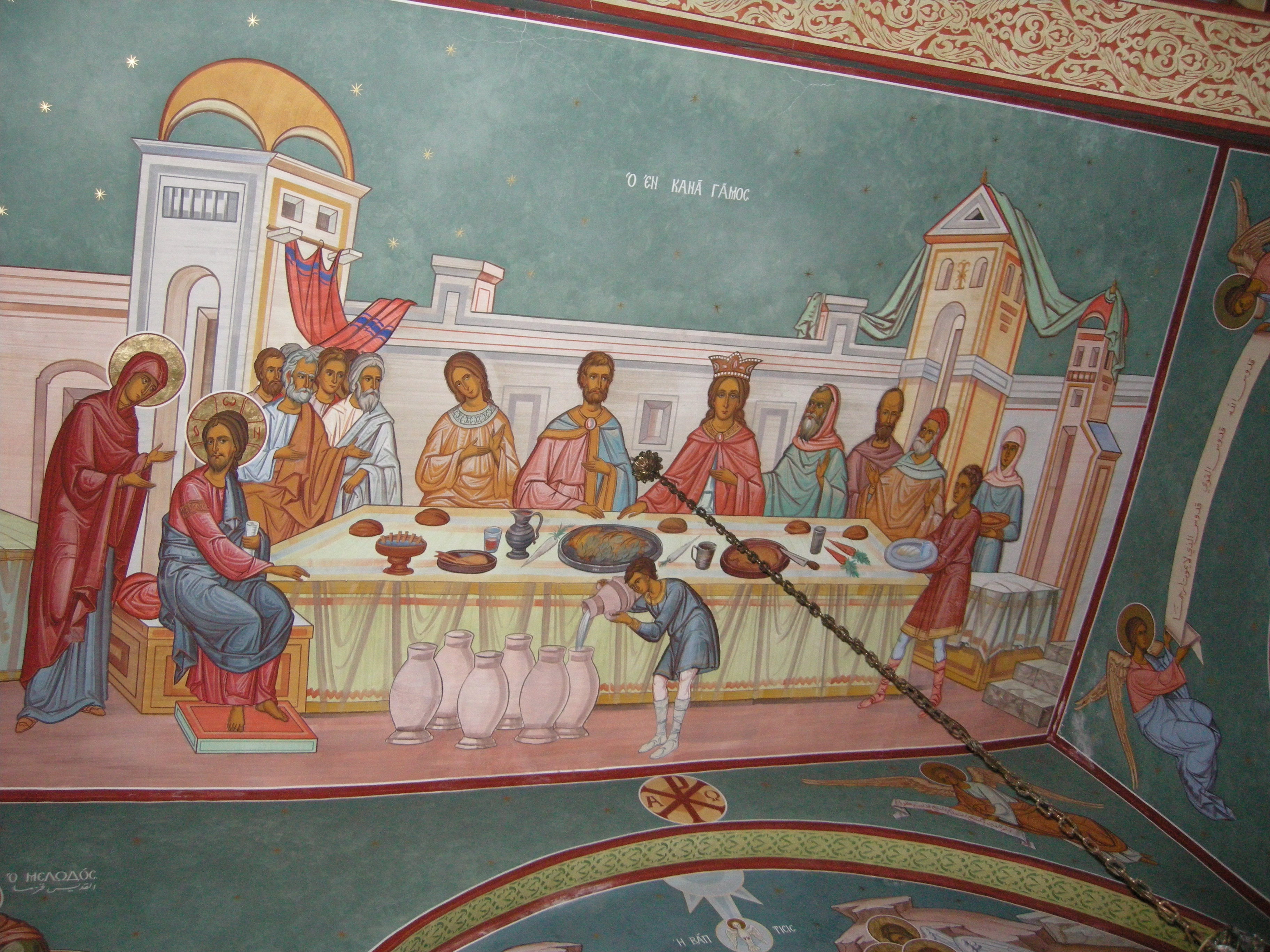 Visit in the Annunciation Cathedral of the Melkite Patriarch of Jerusalem